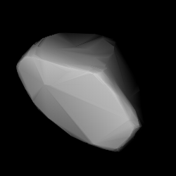 3D convex shape model of 1197 Rhodesia, computed using light curve inversion techniques. J. Hanuš, J. Ďurech, M. Brož, B. D. Warner (June 2011). "A study of asteroid pole-latitude distribution based on an extended set of shape models derived by the lightcurve inversion method". Astronomy and Astrophysics 530: A134. ISSN 0004-6361. arXiv